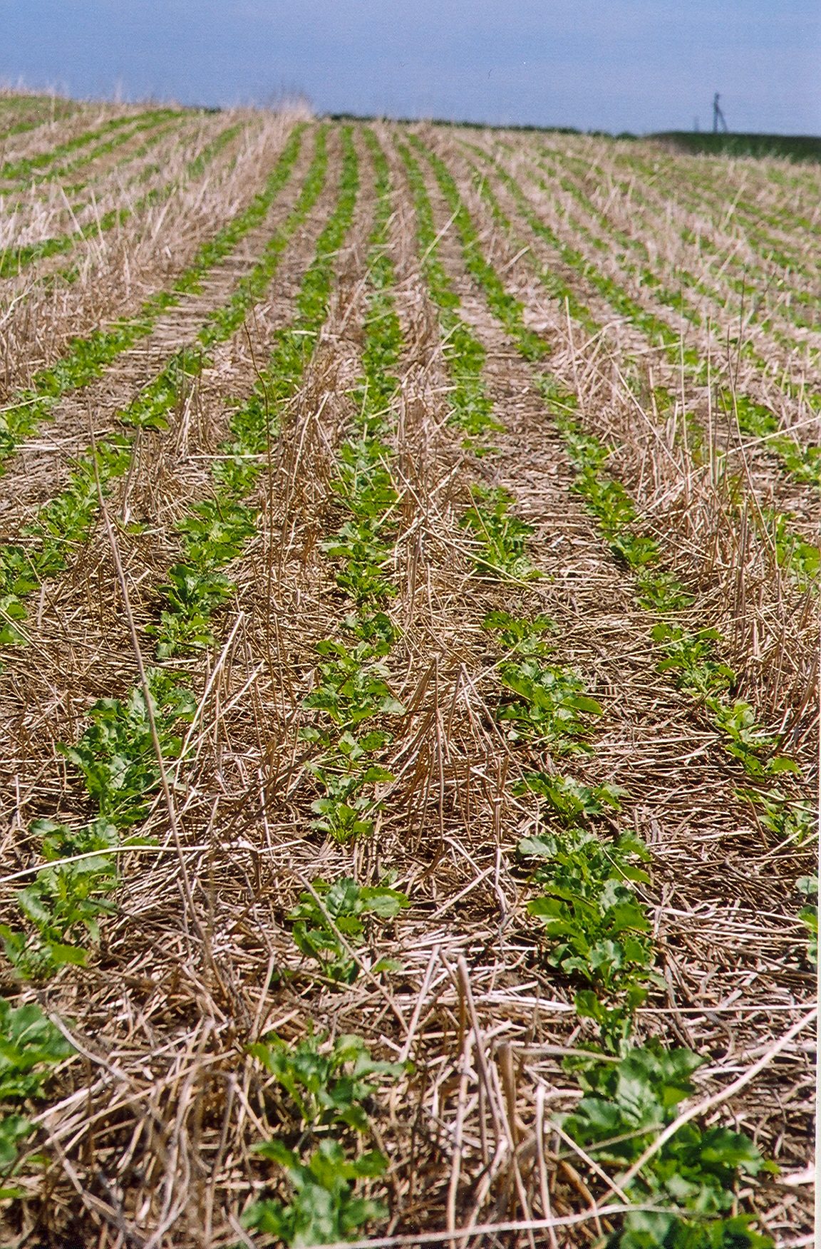 Sugar beet field, canton of Bern, Switzerland